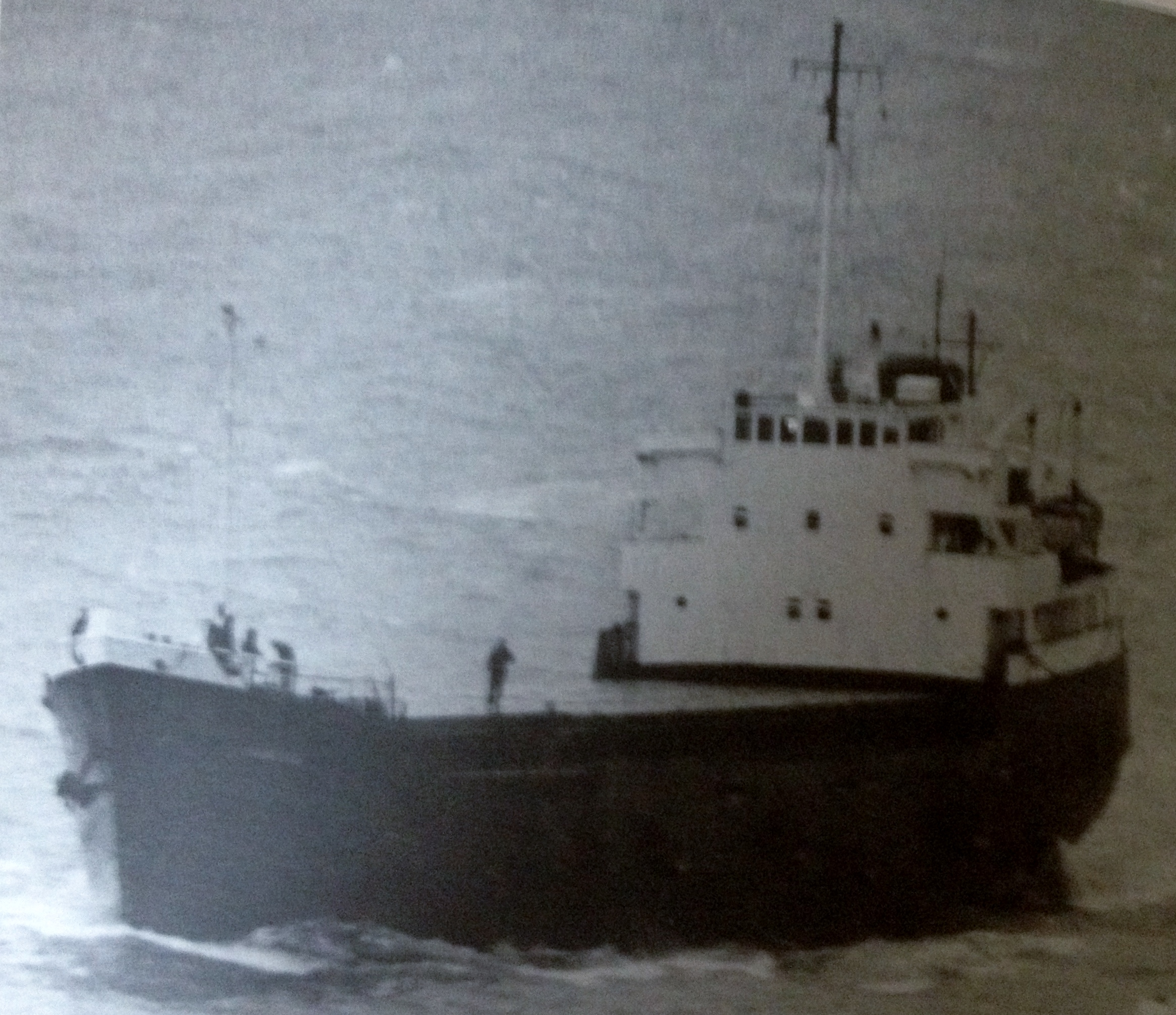 MV Conister.